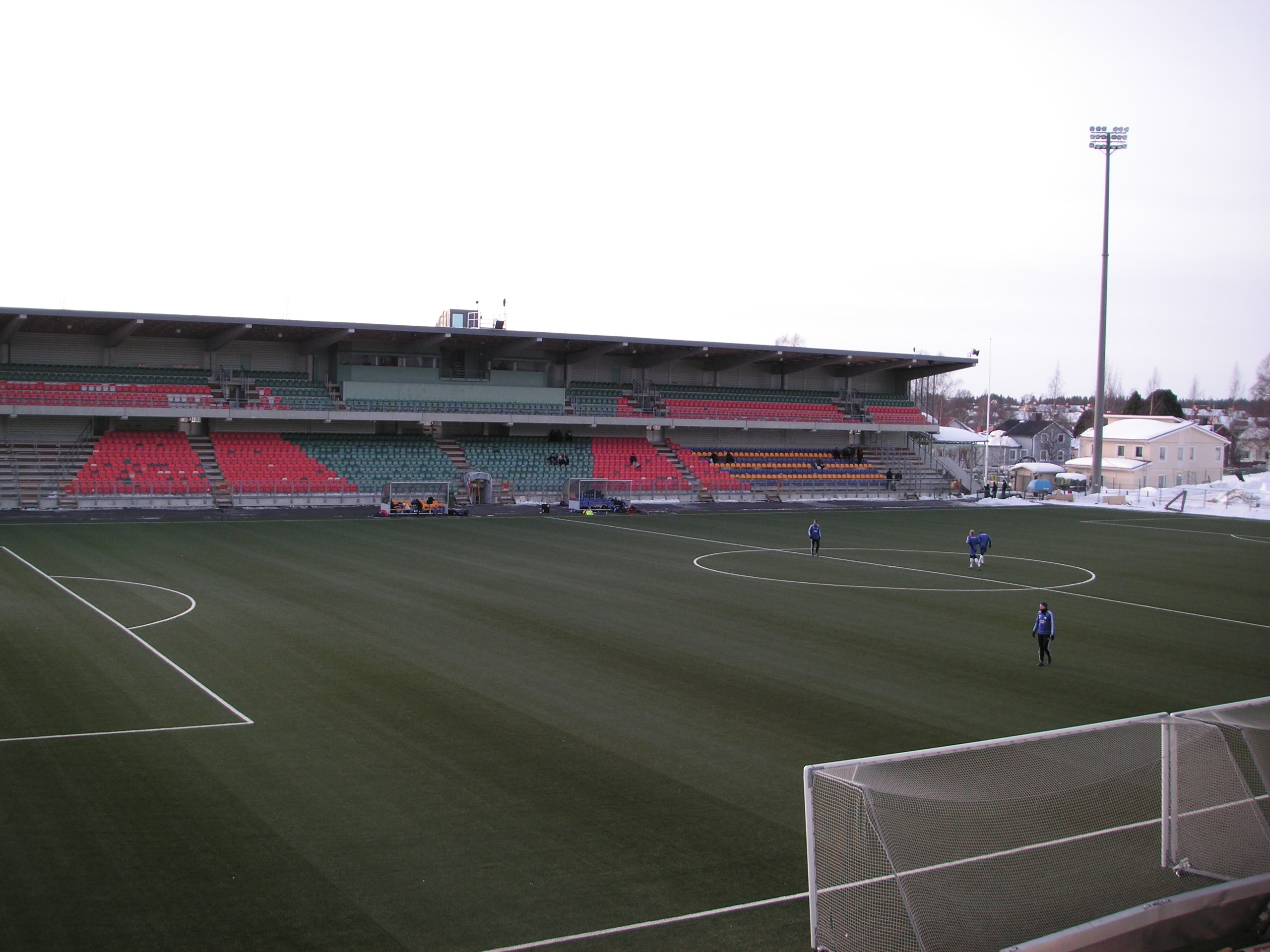 Gammliavallen, Umeå, Sweden.